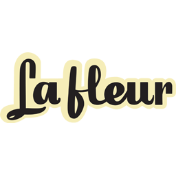 Logo of the Lafleur brand in 1972.